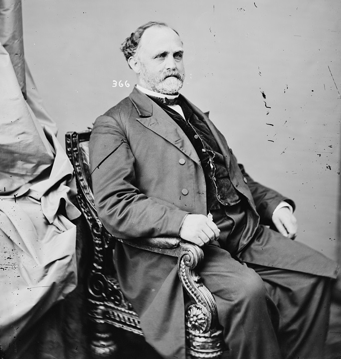 Solomon Bundy, New York Congressman